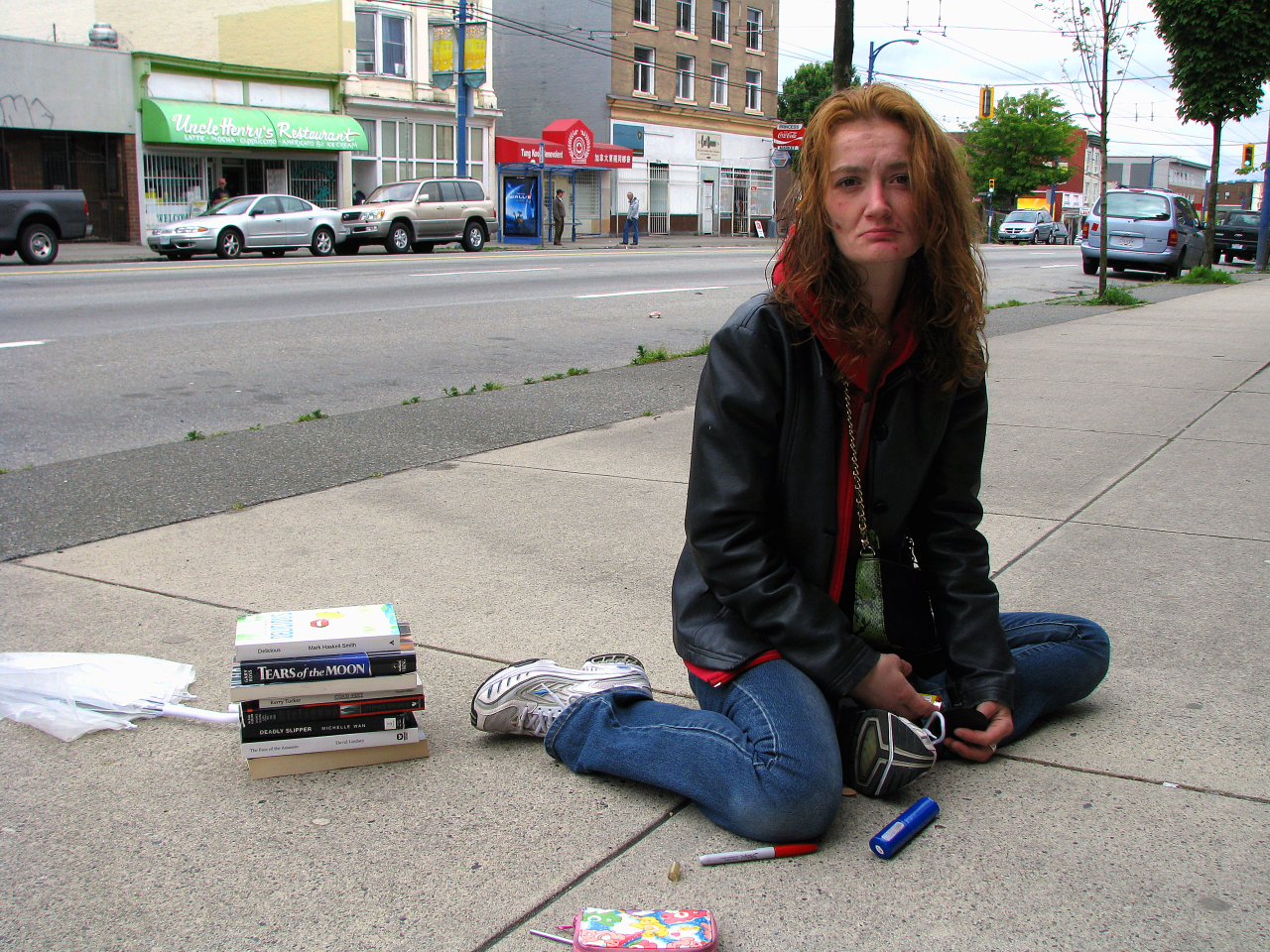 April, sitting on the sidewalk, on East Hastings, in the ghetto downtown eastside area of Vancouver BC Canada. She asked some very intelligent questions as to motive and usage of imagery, before granting permission for this heartbreaking pavement portrait. She was very sweet and polite. Vancouver BC, Canada.